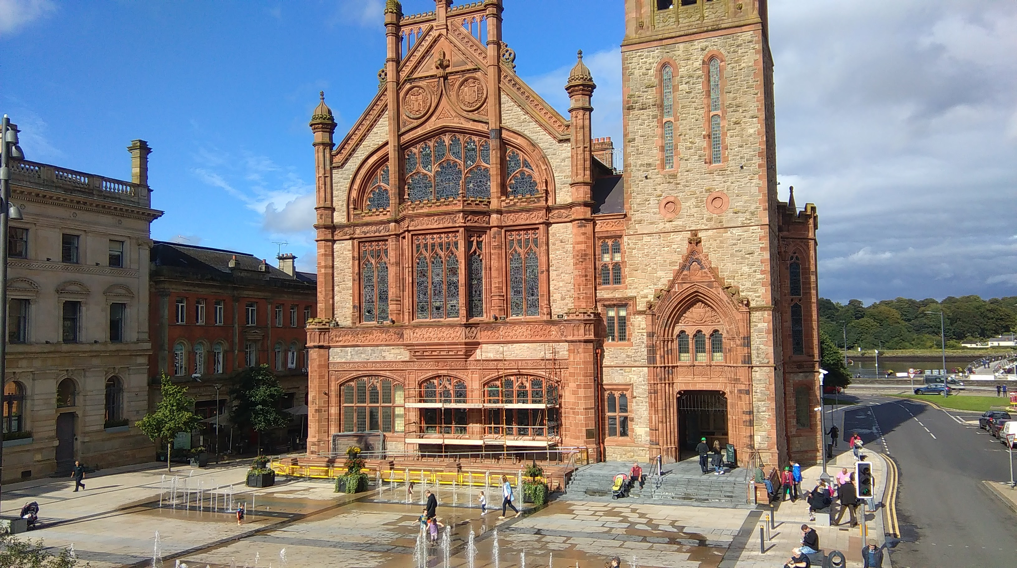 Front of bulding, including water fountains below (Aug 2016)